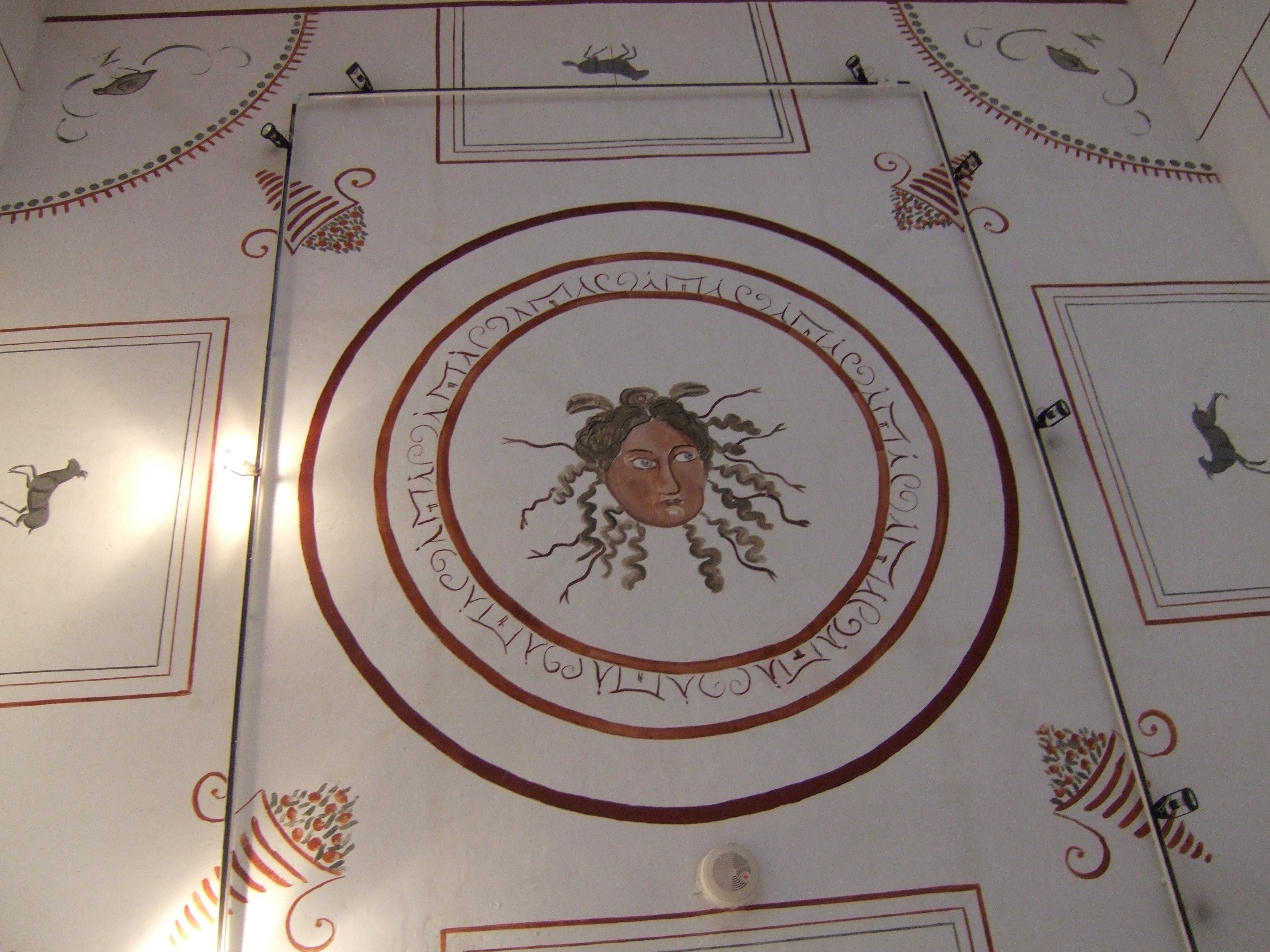 Wall painting at Arbeia Roman Fort, Northumbria, UK